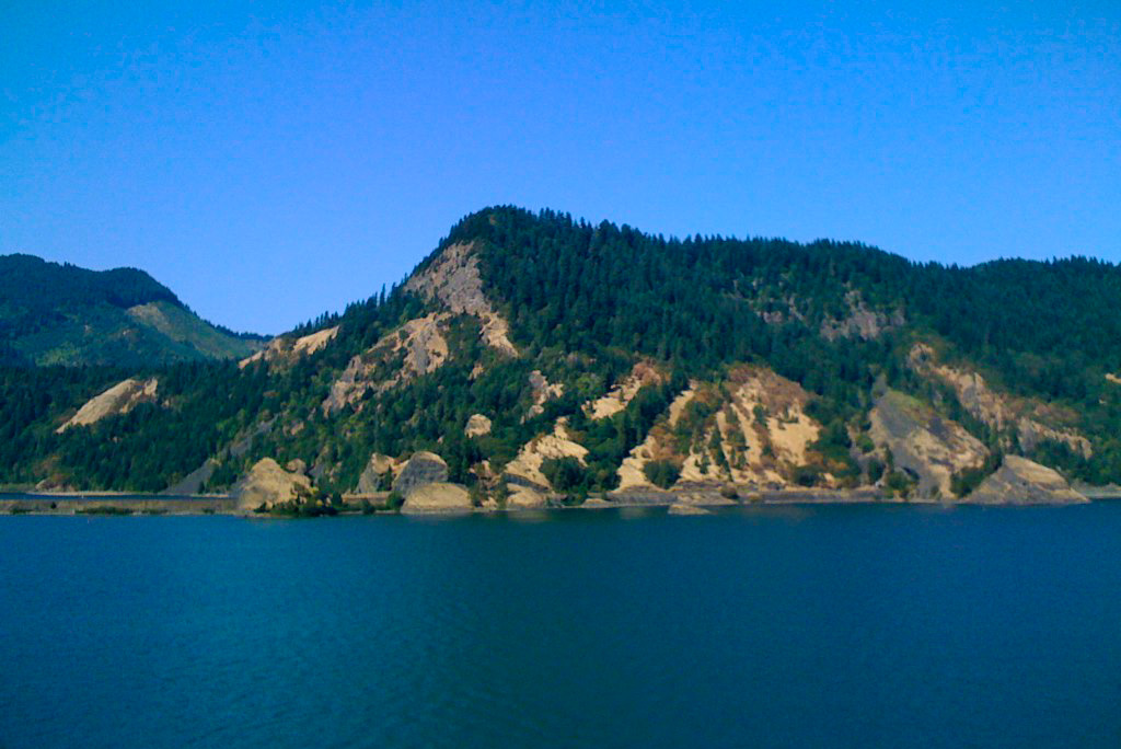 Looking north from Mitchell Point, one can see the way the gorge steepens as landslides slough into the river. Seneca Fouts Memorial State Park, Oregon